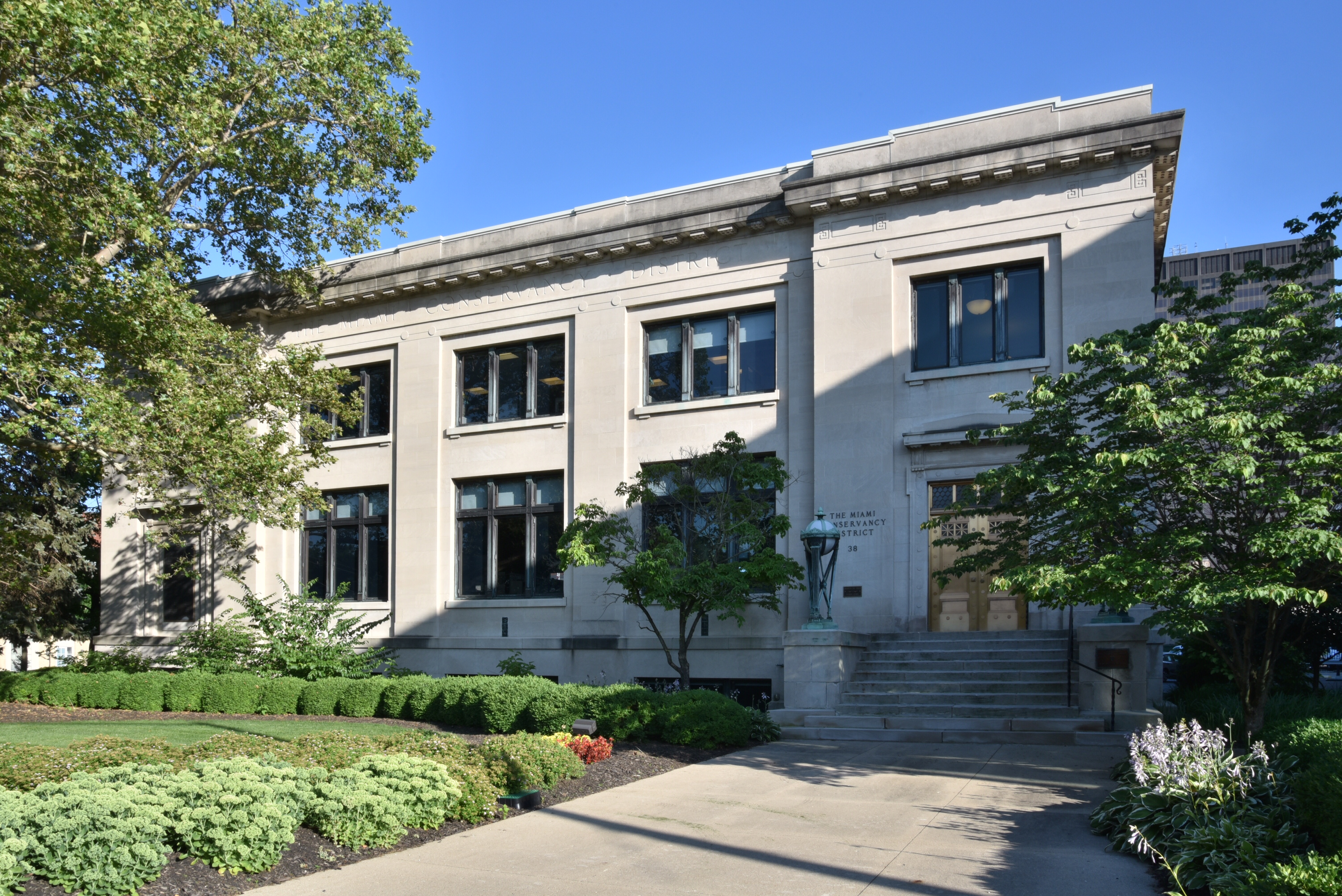 Miami Conservancy District Building (1915), 38 East Monument Avenue, Dayton, Ohio. Schenck & Williams, Dayton, OH, architects.